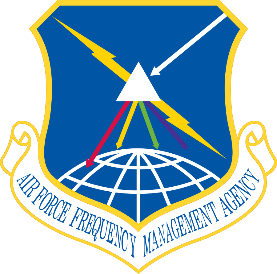 Emblem of the Air Force Frequency Management Agency of the United States Air Force